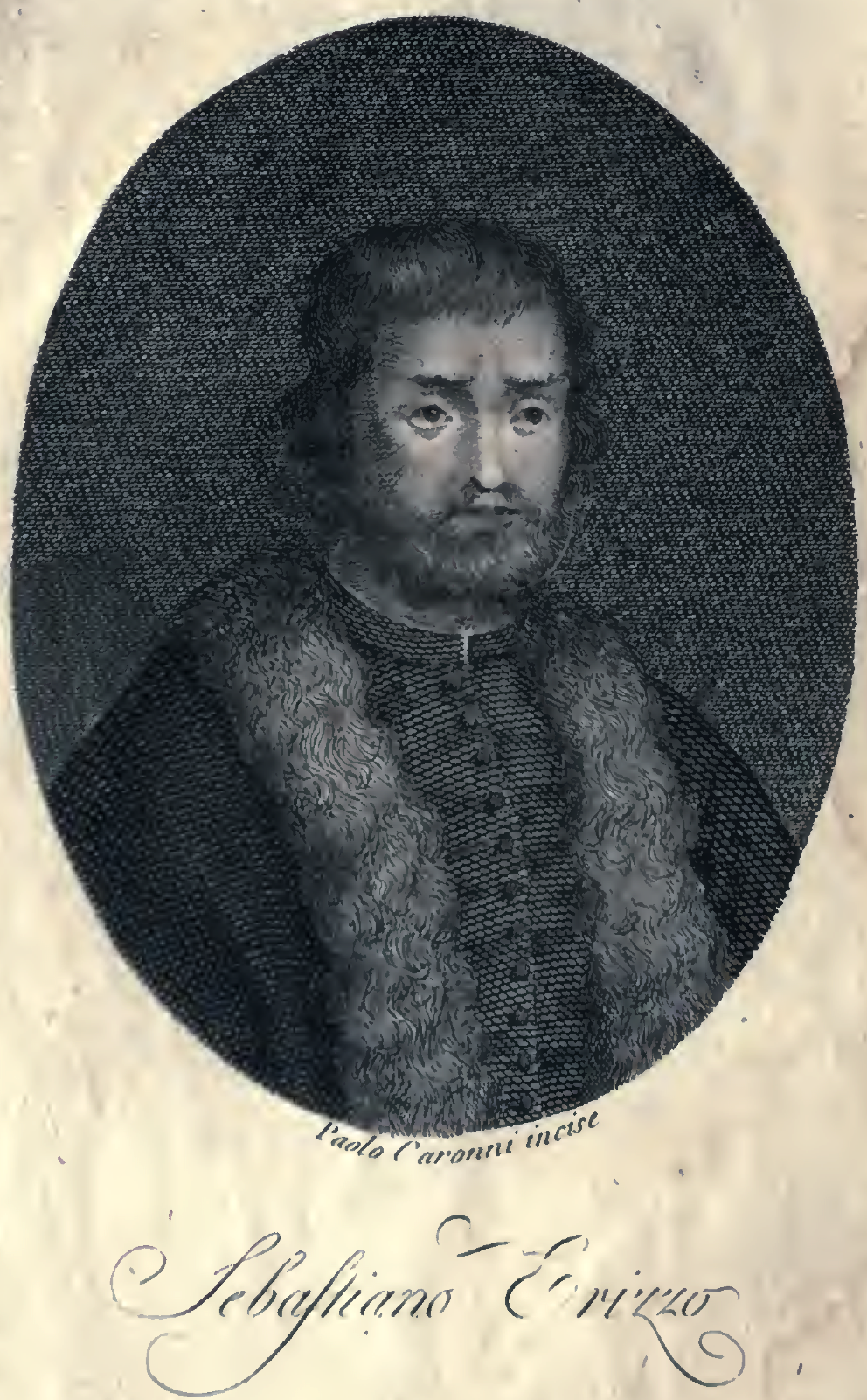 Portrait of Sebastiano Erizzo, Italian XVI century humanist, novelist and numismatist